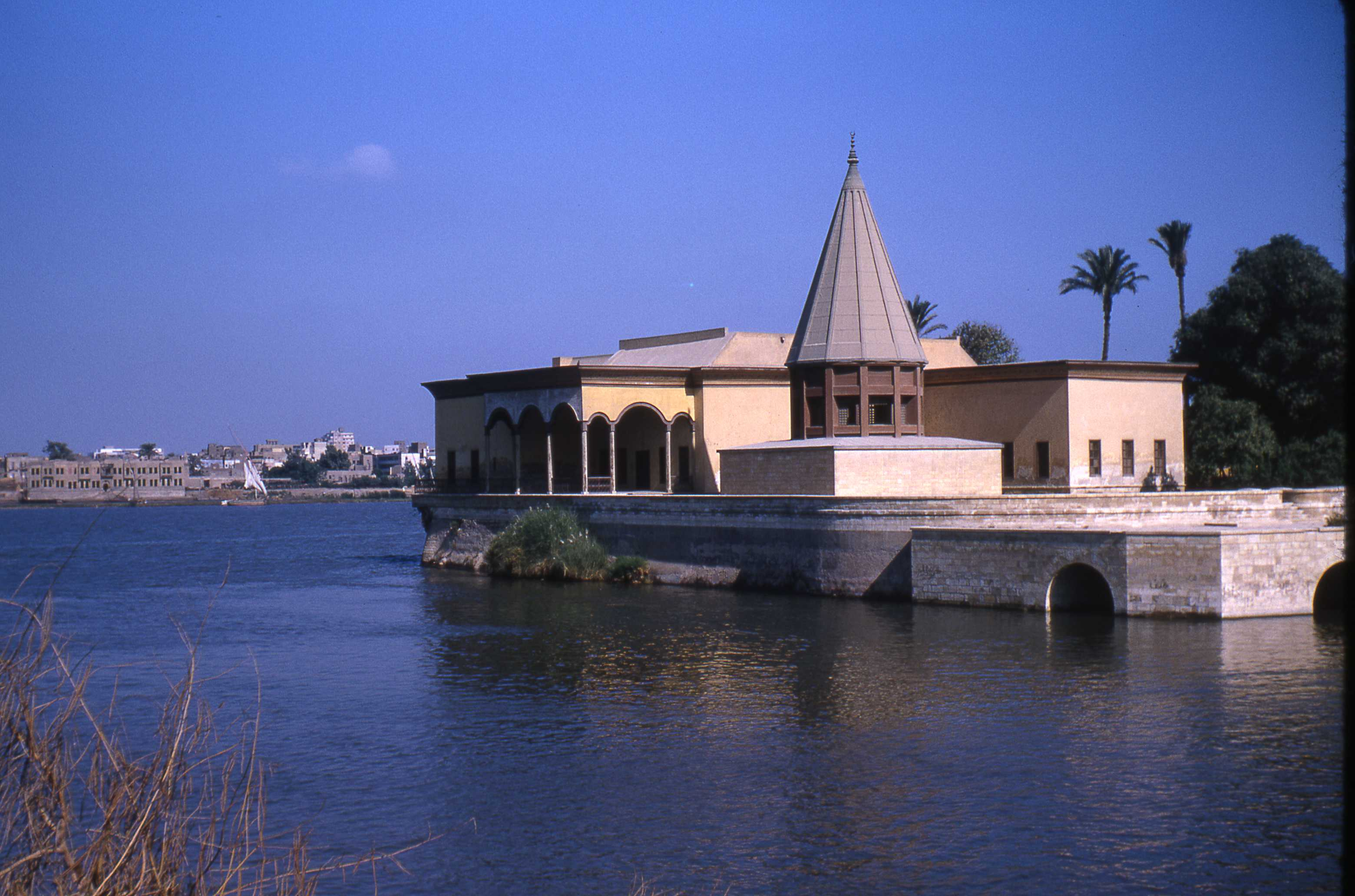 Conical structure over the Nilometer on the southern tip of Rhoda (also Roda, Rodah, Rawda) Island in the Nile River at Cairo. The structure is modern but the Nilometer dates from 861 AD, and can be seen at and .